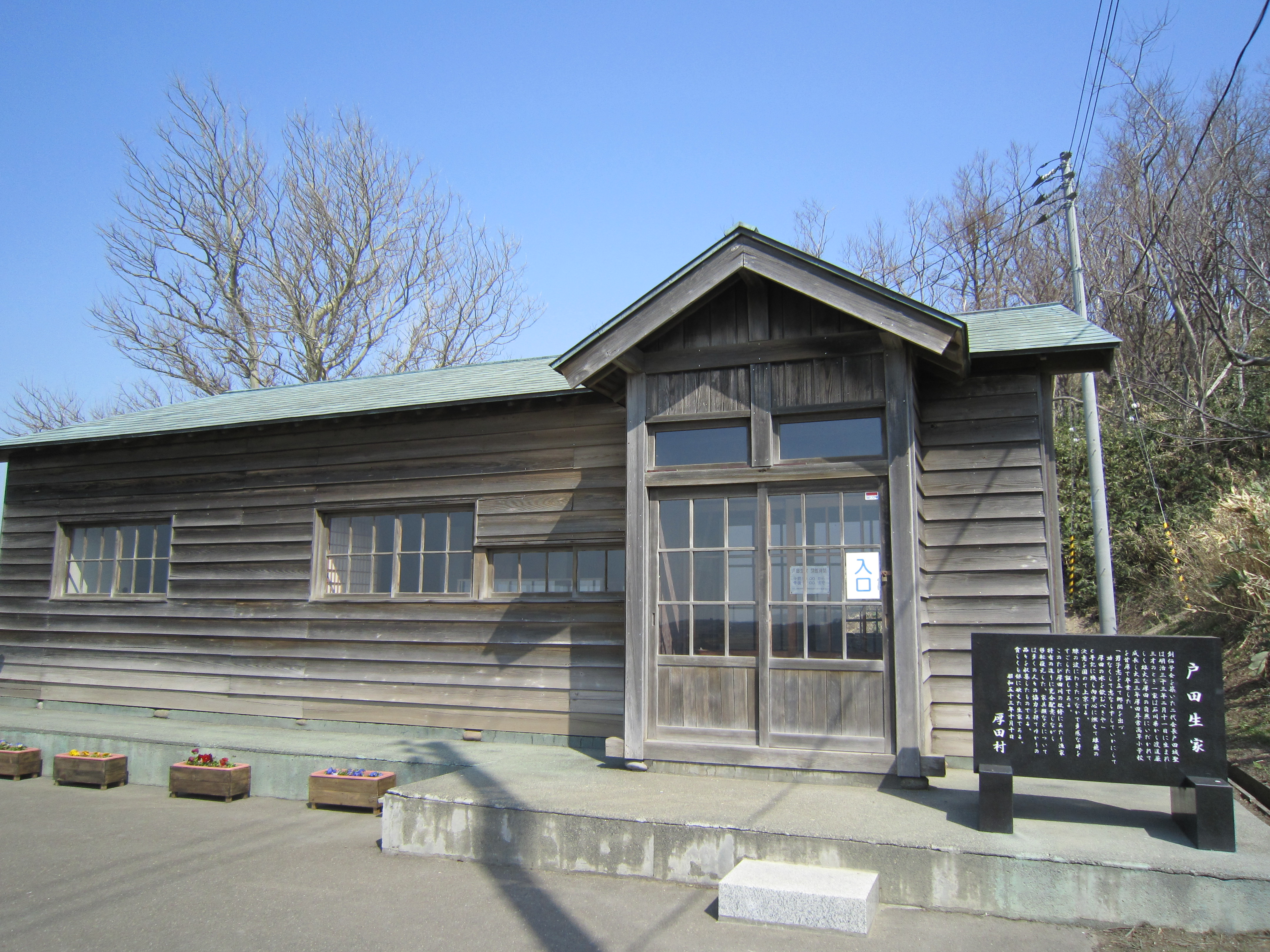 Toda Josei's Residence